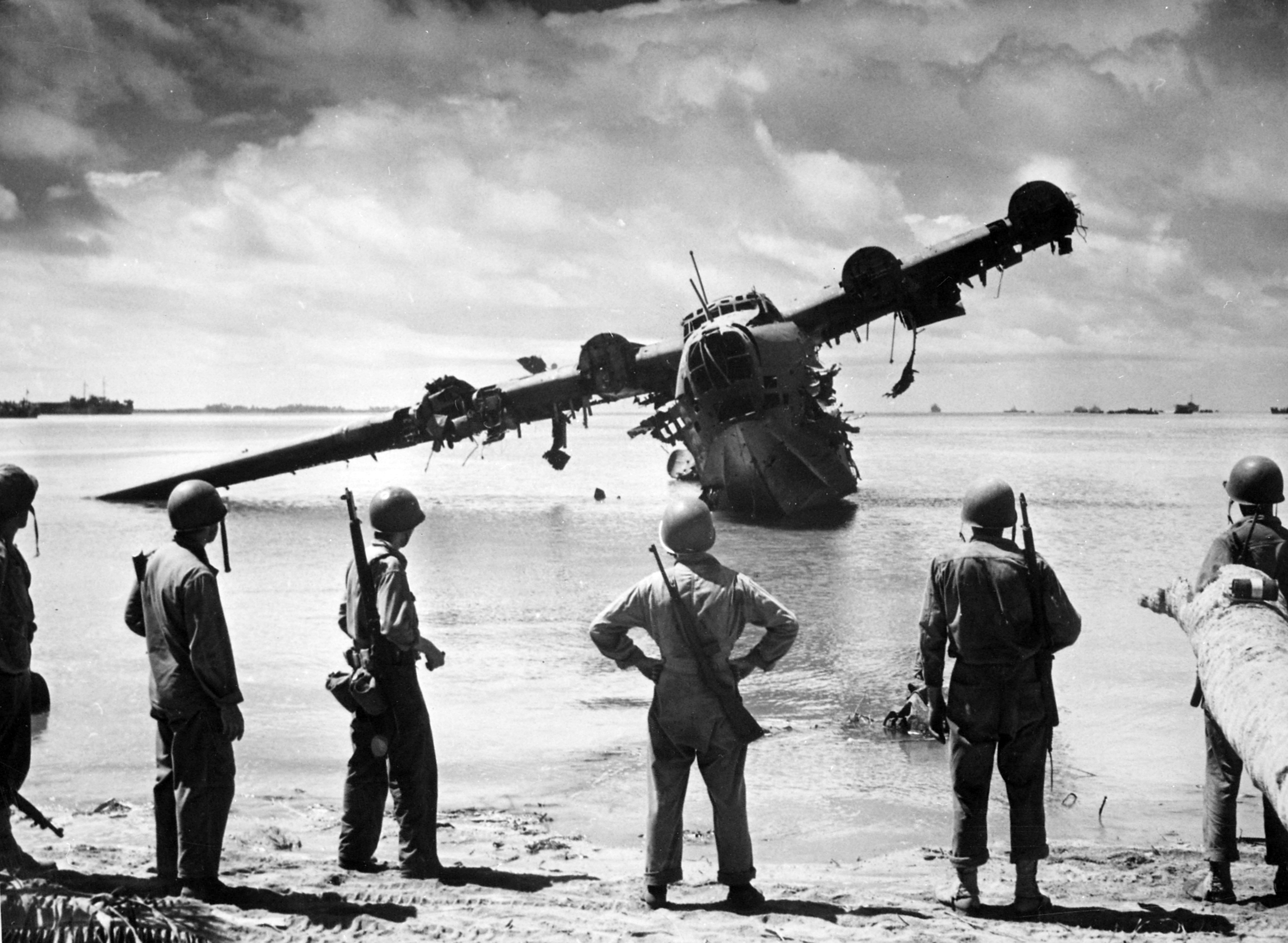 Original description: "U.S. Army troops pause for a look at a Japanese seaplane during the battle of Makin. The plane was under repair in the lagoon when the invasion started. The Japanese used it as a machine gun nest until American fliers took care of it., 11/1943"